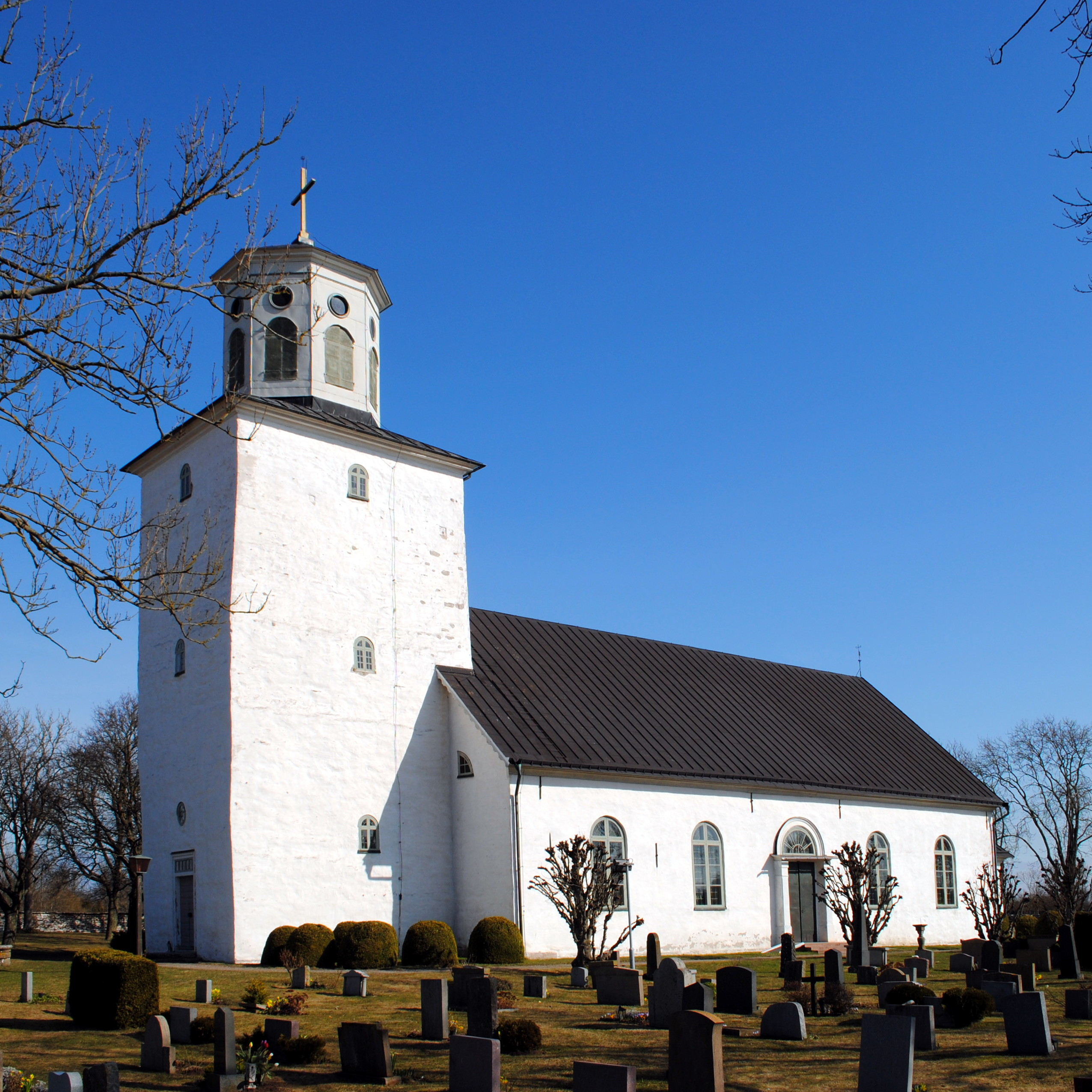 Högsrums church, Öland. From south